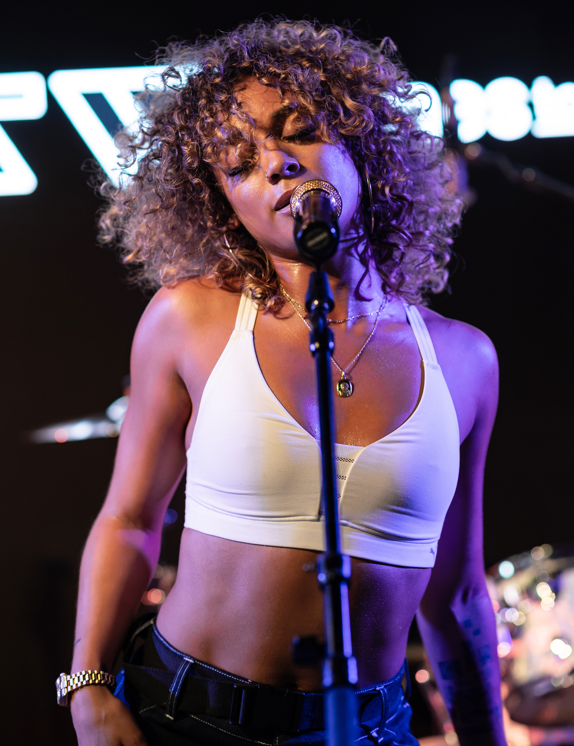 DaniLeigh performing live at the Ones To Watch "All Eyes On..." showcase at Live Nation in Beverly Hills, Los Angeles, California, on Wednesday, July 11, 2018.